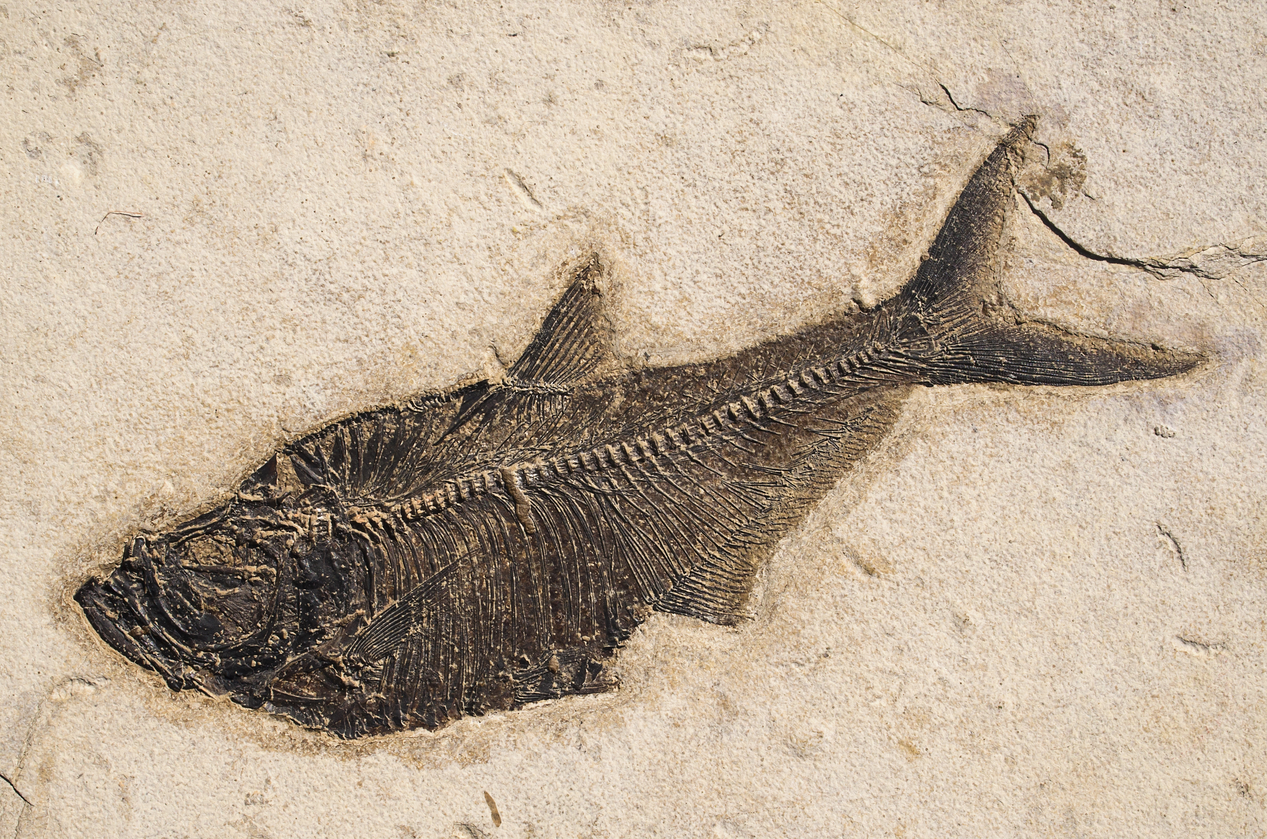 Diplomystus dentatus Stage : Eocene from 55,8 ± 0,2 Ma to 33,9 ± 0,1 Ma (million years ago) Locality: Fossil-Lake, Wyoming, USA Size : 48 cm